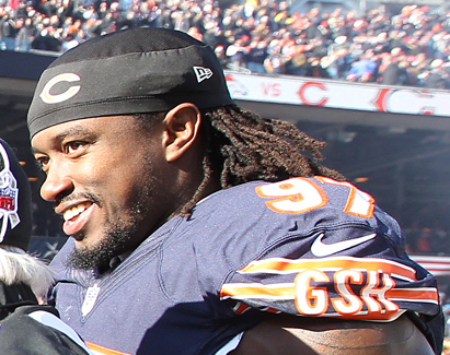 Chicago bears linebacker, Willie Young, in a game against the Denver Broncos on November 22, 2015.